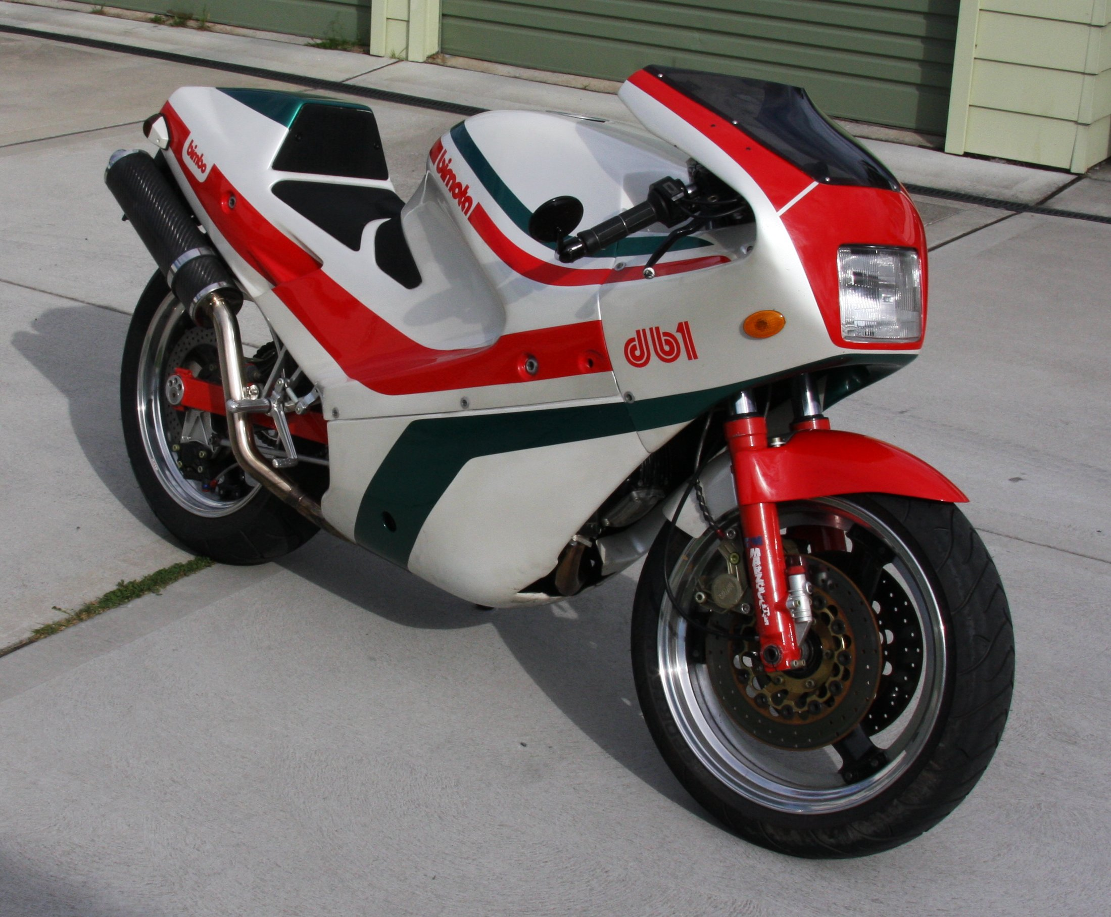 A 1986 Bimota DB1 custom with 900 cc engine